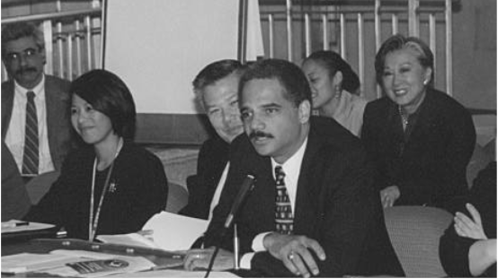 Deputy Attorney General Eric Holder opened an Interagency Working Group meeting of the White House Initiative on Asian Americans and Pacific Islanders hosted by the Department of Justice on October 18, 2000, which addressed LEPissues. In the immediate background, White House representative Irene Bueno, Assistant Attorney General for Civil Rights Bill Lann Lee, and Community Relations Service Director Rose Ochi look on. (DOJ photo)